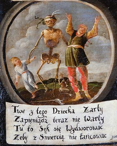 The Dance of Death - Child and a fool.